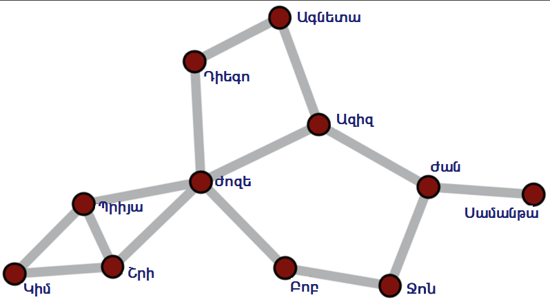 Katz example net